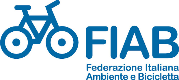 Logo FIAB - Federazione Italiana Ambiente e Bicicletta